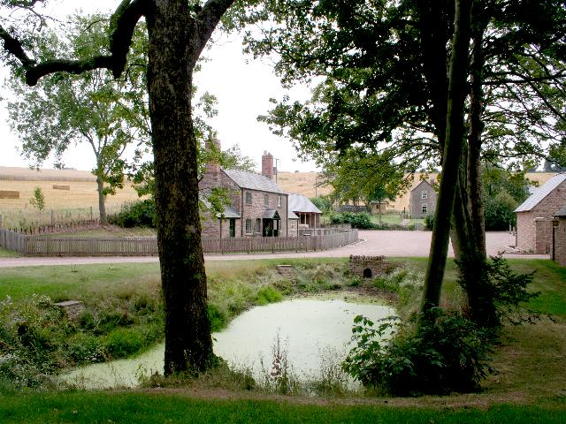 Home Farm, Harewood Park. Now all the farm buildings have been converted into residential accommodation.